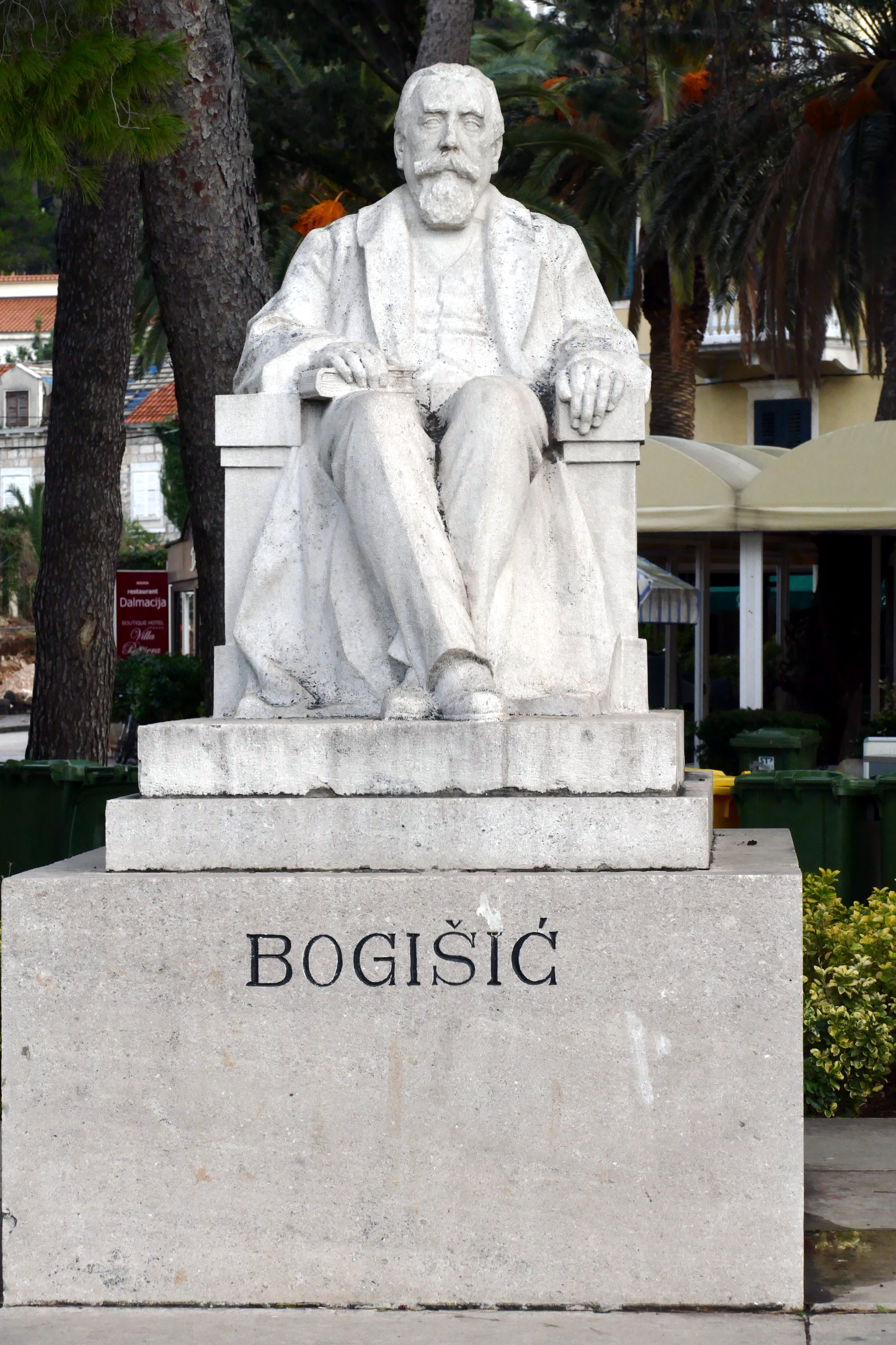 4.1.17 Cavtat